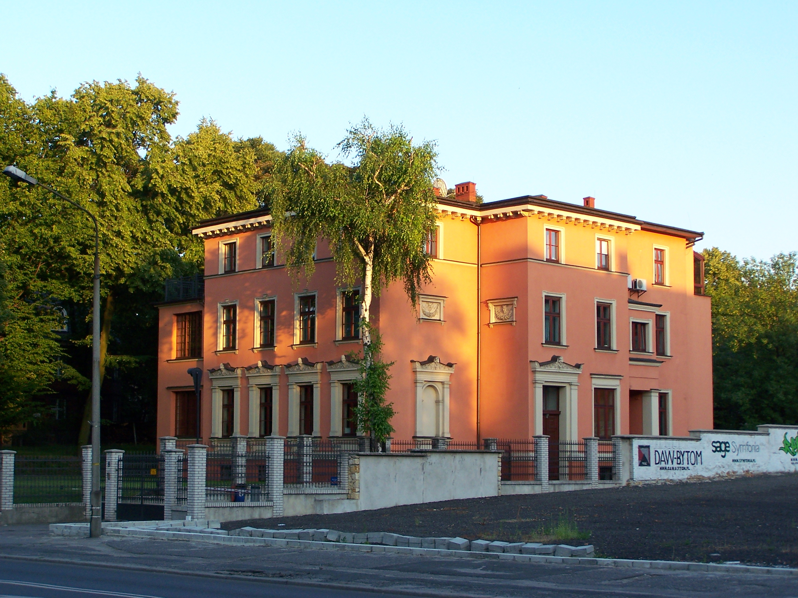 Ritter Villa, Wrocławska 8 street in Bytom (Poland).